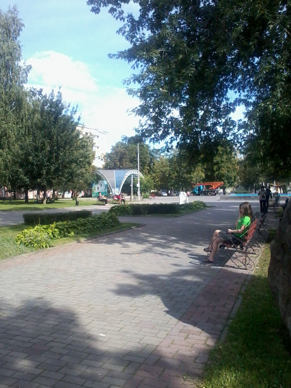 Square 40th anniversary of Victory in Mogilev